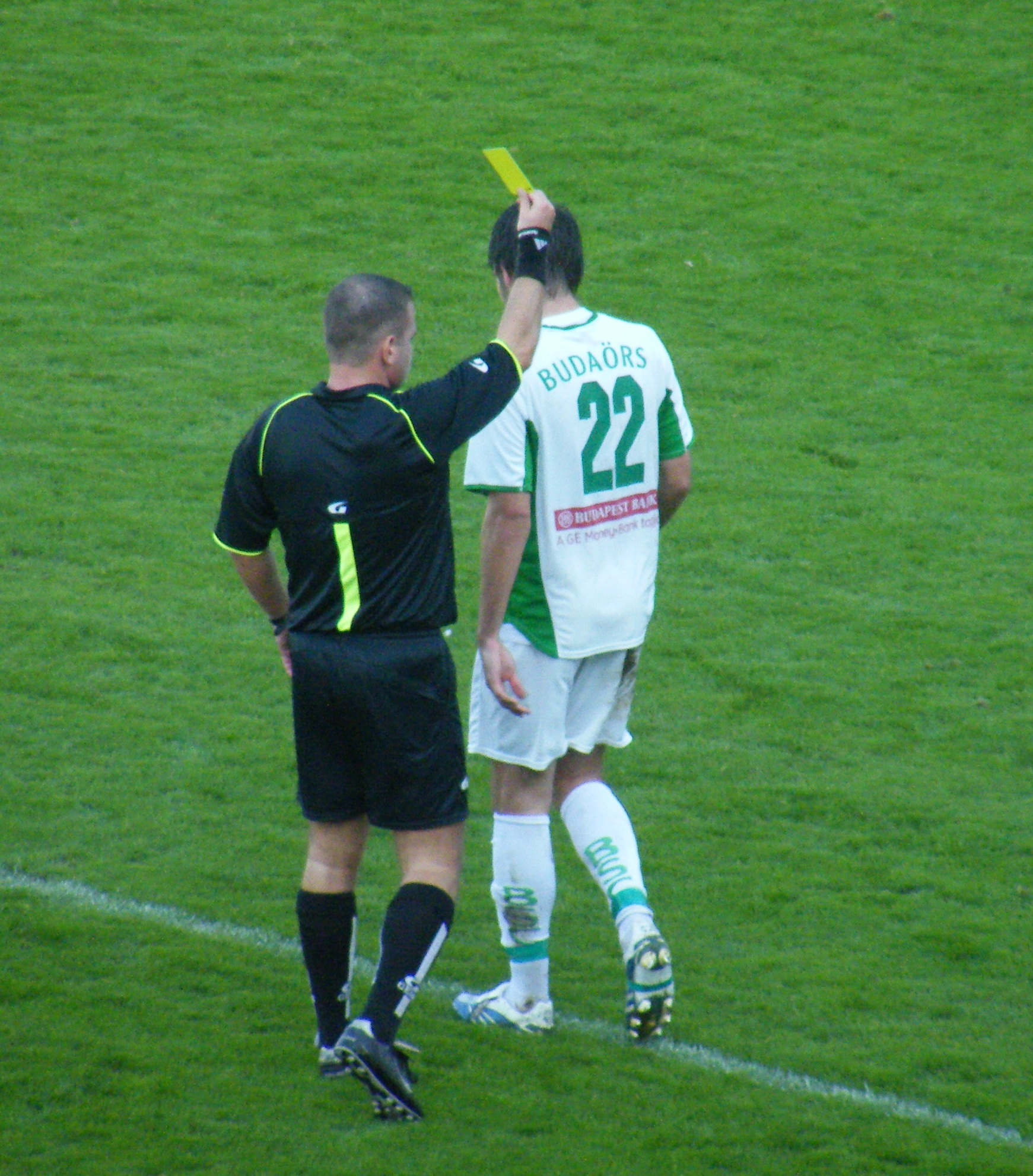 Gergő Király Hungarian football referee gives a yellow card to András Végh, player of BUDAÖRSI SC on 2008-10-12.